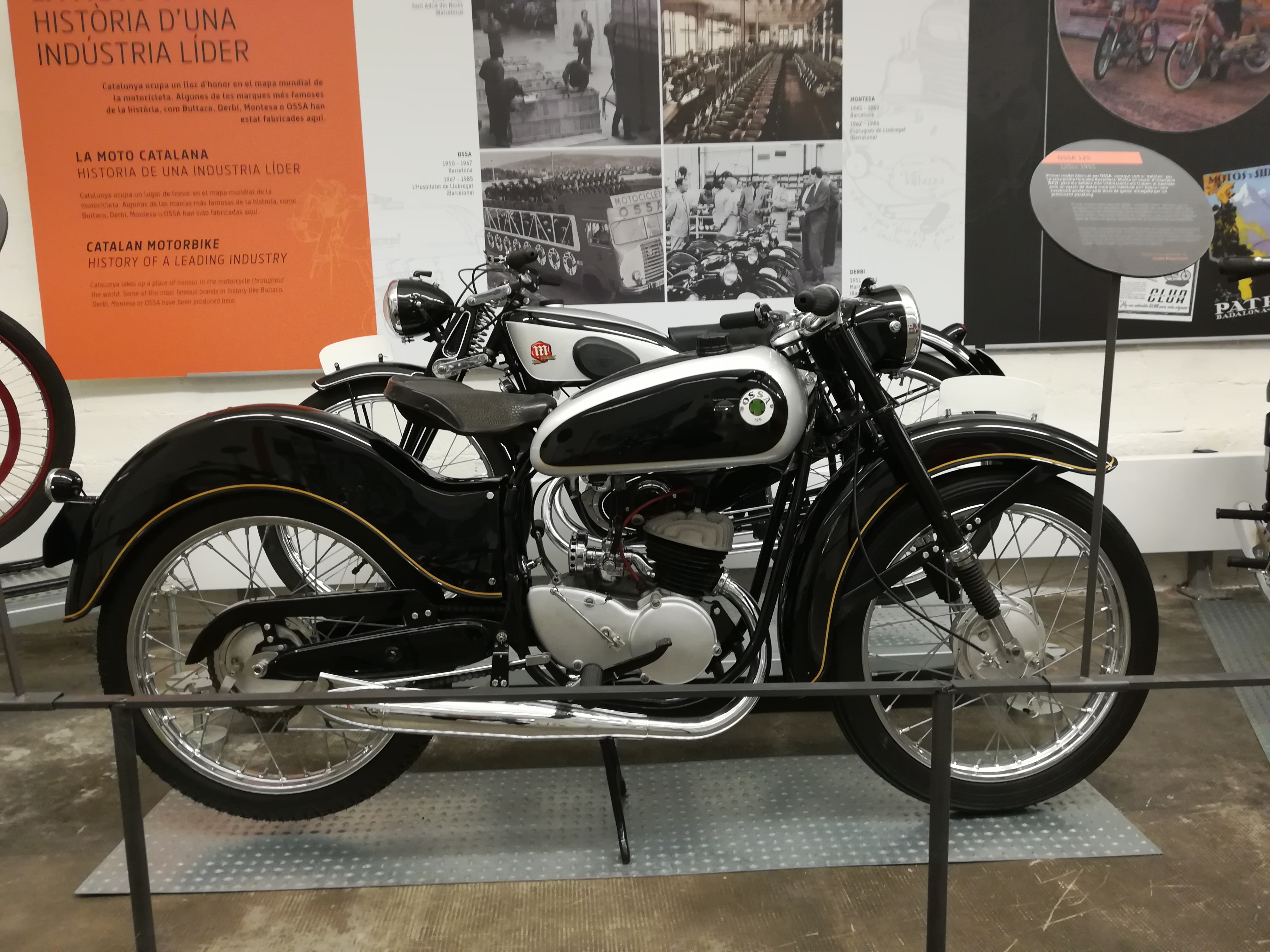 OSSA 125 125cc (1951).Museu de la Moto de Barcelona (Catalonia).